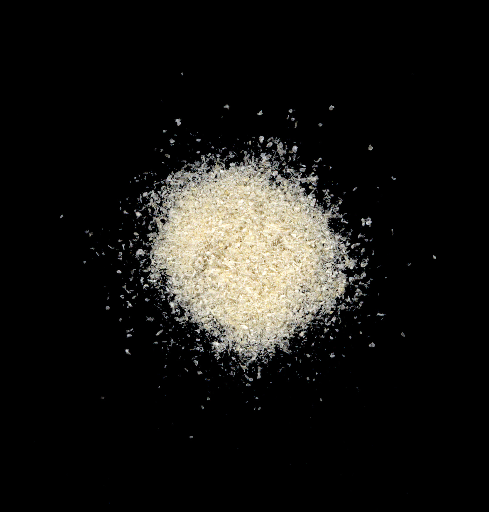 powdered fish glue for white and rosé wines